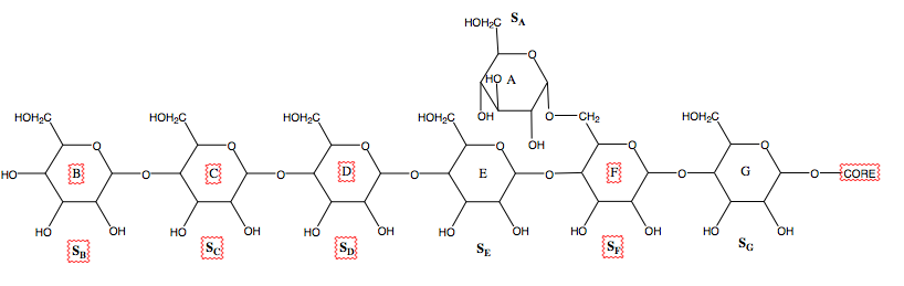 Hypothesized substraight binding location